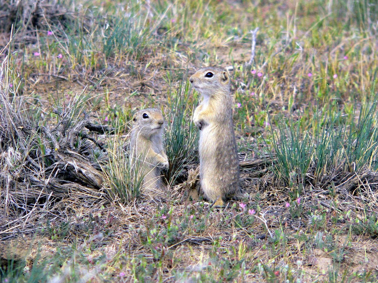 Photo credit: Jodie Delavan/USFWS